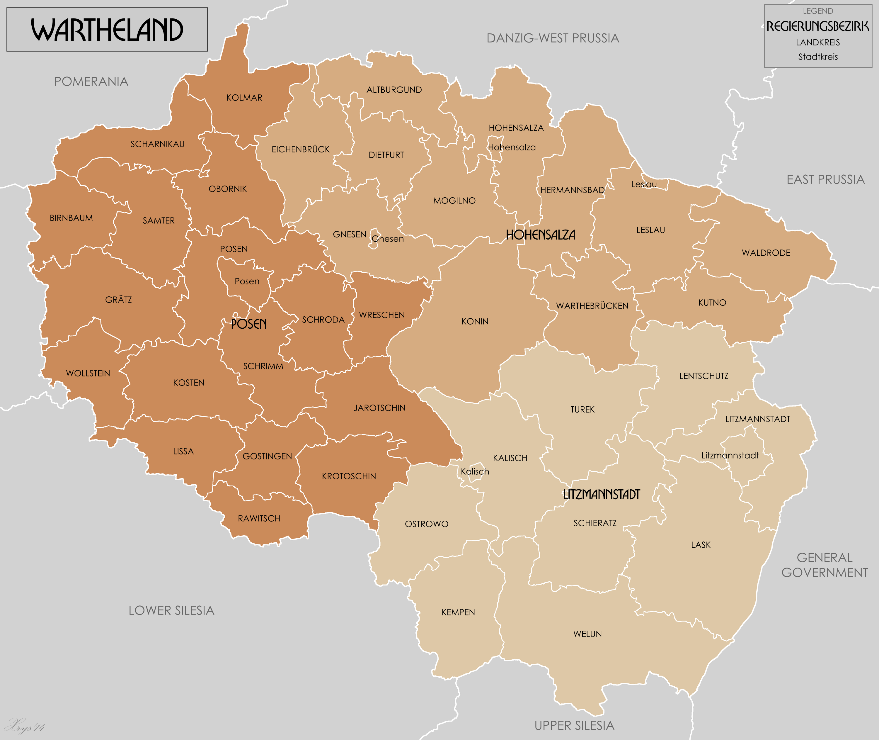 Administrative map of Reichsgau Wartheland in 1944. Source GIS data digitised from Karte von Mitteleuropa 1:300k. Some map source data courtesy of WIG (